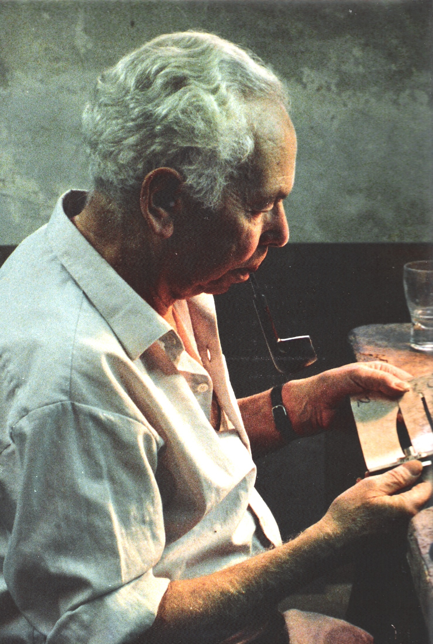 D.H. GUMBEL AT HIS STUDIO, MADE BY MALKA COHAVI